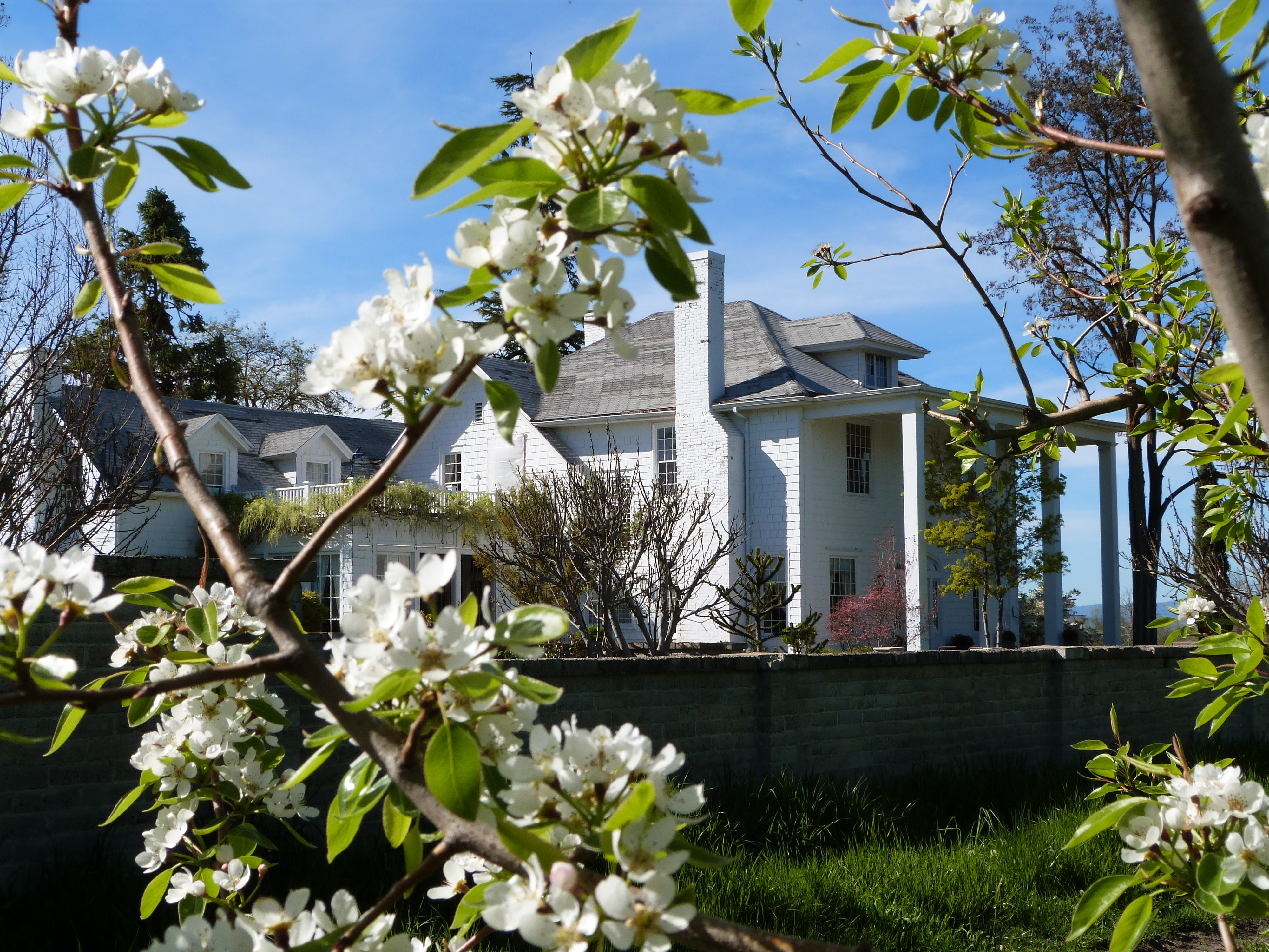 The historic Stewart–Voorhies House (built 1890–1920, in phases), located at 2488 Voorhies Road near Medford, Oregon, United States, is a contributing feature of the Eden Valley Orchard; the orchard is listed on the US National Register of Historic Places.